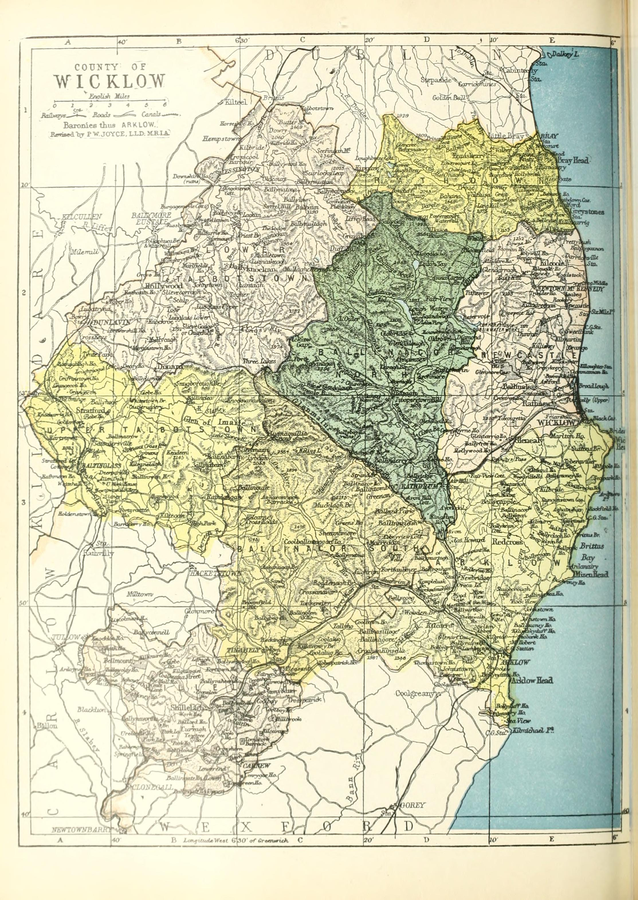 Map of the baronies of County Wicklow in Ireland; taken from Atlas and cyclopedia of Ireland, p.309